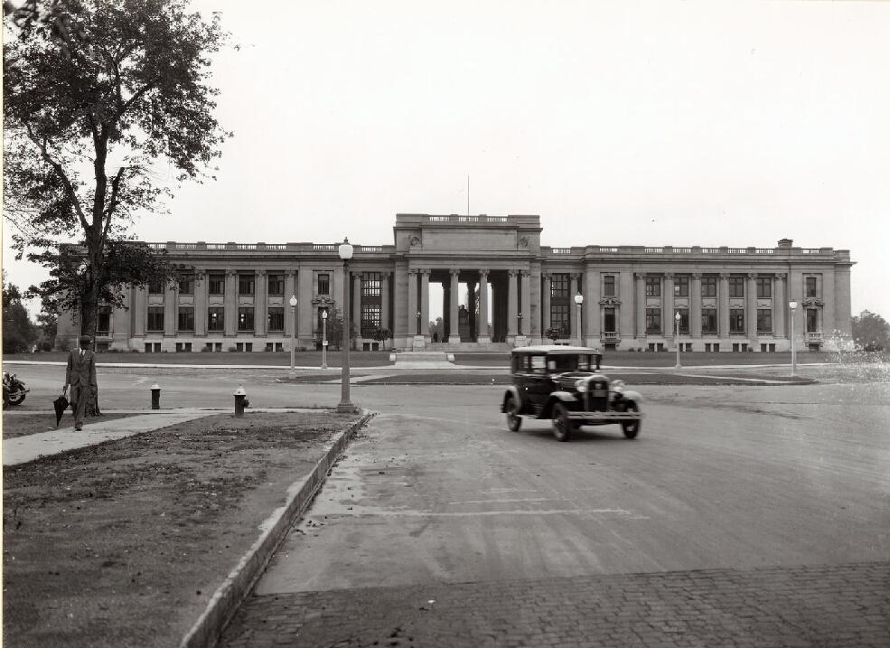 Horizontal, black and white photograph showing the Jefferson Memorial Building and the intersection of Lindell Boulevard and DeBaliviere Avenue on 25 September 1930 after the completion of construction for the River des Peres Sewerage and Drainage Project in the area. A car is shown turning onto DeBaliviere from Lindell, and a man carrying an umbrella can be seen walking on the sidewalk. P0054-00005 is a duplicate of this image. The directors of the 1904 World's Fair used some of the salvage materials after the fair to build a permanent memorial to Thomas Jefferson, in commemoration of the 100th anniversary of the Louisiana Purchase. The memorial building was intended to store the archives of the Louisiana Purchase Exposition Company, the collection of the Missouri Historical Society, and historical artifacts associated with the territory the U.S. acquired in the Louisiana Purchase. The statue of Jefferson was created by Karl Bitter, who was the chief sculptor for the World's Fair.